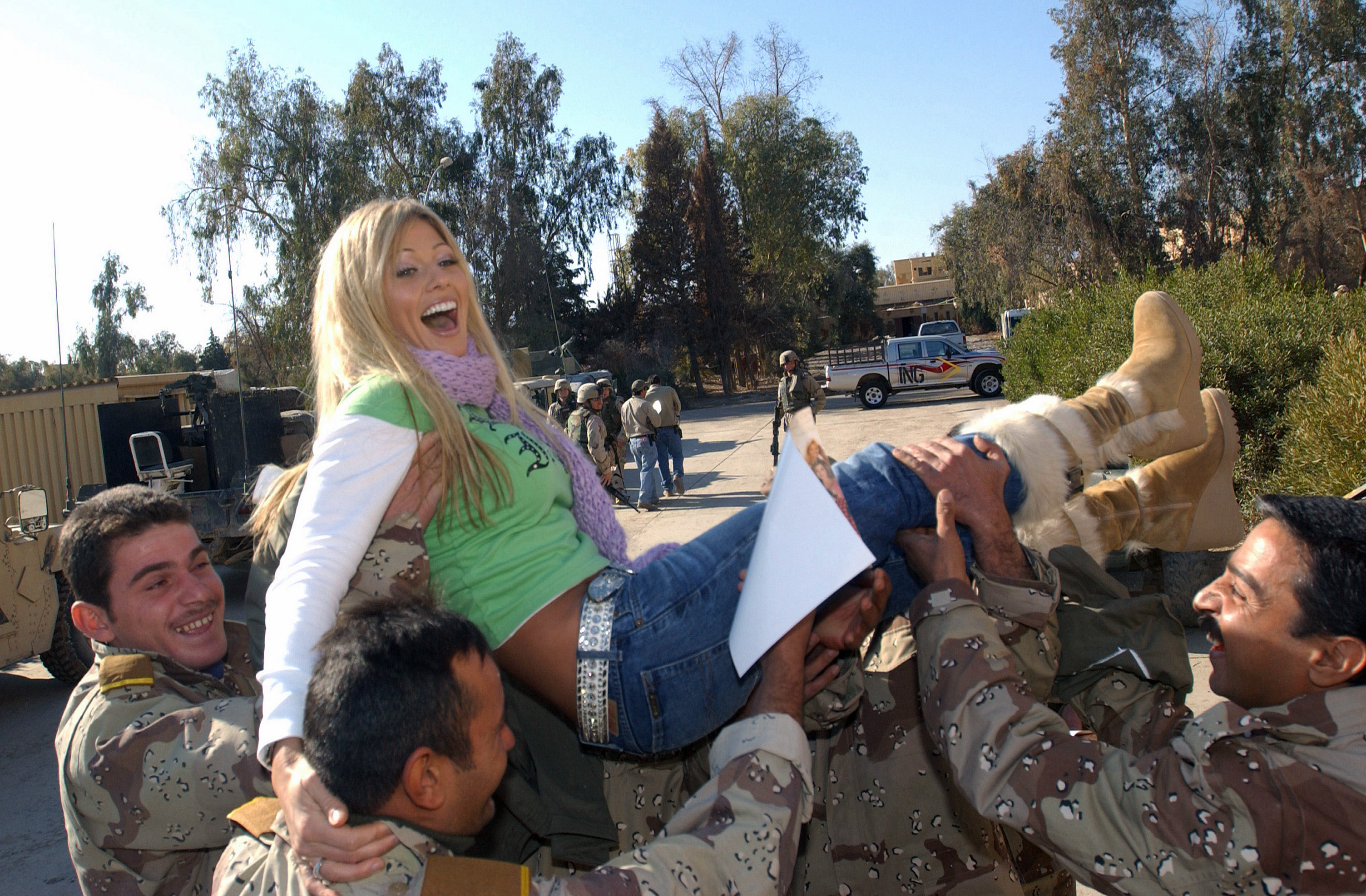 Torrie Wilson